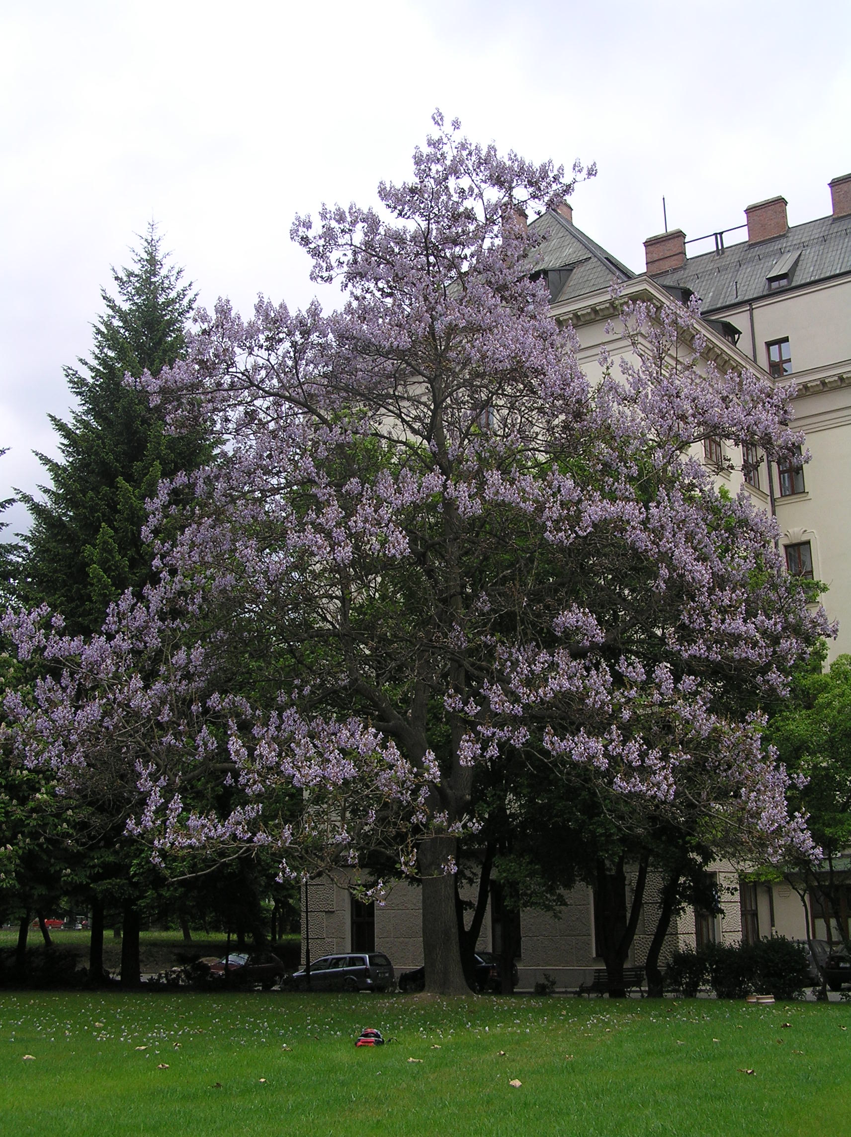 Paulownia tomentosa, Brno-Černá Pole, Czech Republic, introduced